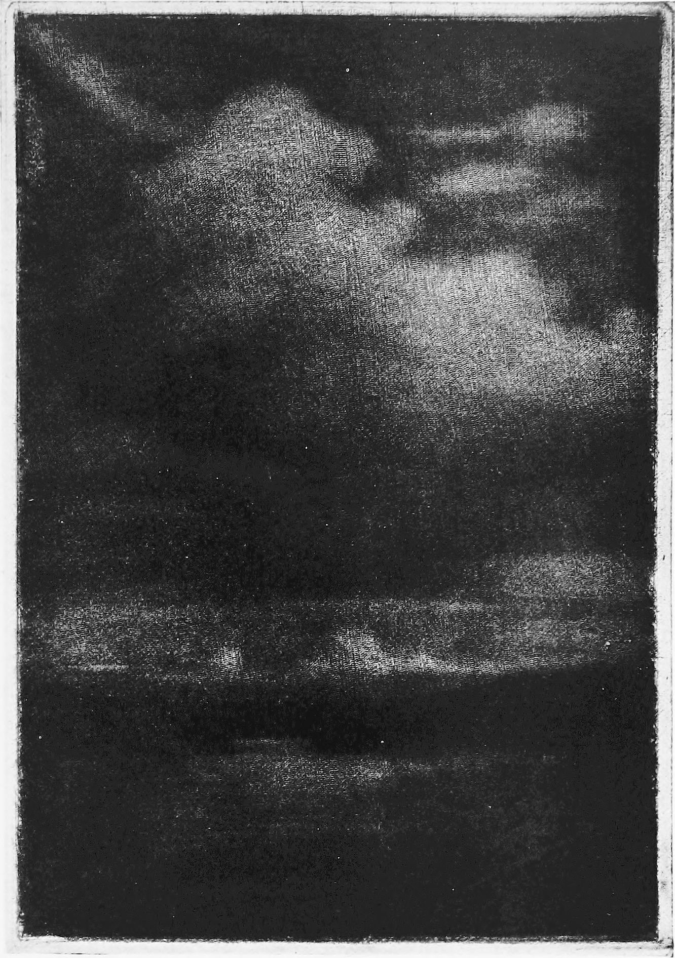 Title: Modern etchings, mezzotints and dry-points Year: 1913 (1910s) Authors: Holme, Charles, 1848-1923 Salaman, Malcolm C. (Malcolm Charles), 1855-1940 Taylor, E. A Zilcken, Ph., 1857-1930 Levetus, A. S Deubner, Ludwig, 1877-1946 Laurin, Thorsten Subjects: Etching Mezzotint engraving Dry-point Publisher: London, New York (etc.) "The Studio" ltd. Text Appearing Before Image: »S!!;*v-i?-Lrv-vi*J?T, THE EXPRESS. ORIGINAL ETCHINGBY FERDINAND BOBERG 266 SWEDEN Text Appearing After Image: NIGHT-CLOUDS. ORIGINAL MEZZOYINTBY PRINCE EUGEN 267